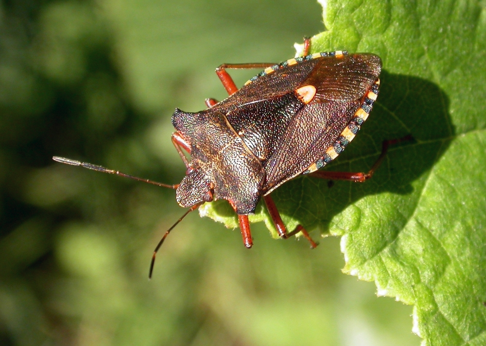 Unknown Heteroptera, Schattenmühle, Wutachschlucht, Schwarzwald, Germany Remark: This species is Pentatoma rufipes. Det. --Gyllenhali 09:19, 15 October 2007 (UTC)